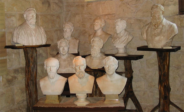 Busts by Elisabet Ney, inside the Elisabet Ney Museum. Photograph by J. Williams. (July 11, 2003).